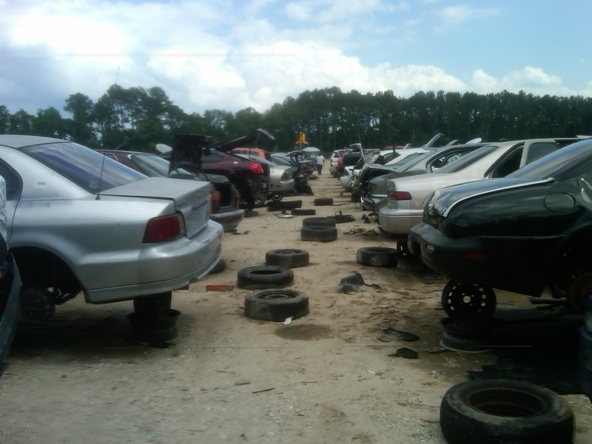 A junk yard in Jacksonville, Florida. Photo by Anthony M. Inswasty